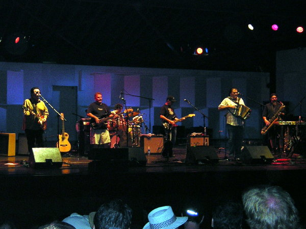 Picture of Los Lobos performing at Hartwood Acres in Pittsburgh, Pennsylvania, on August 21, 2005.